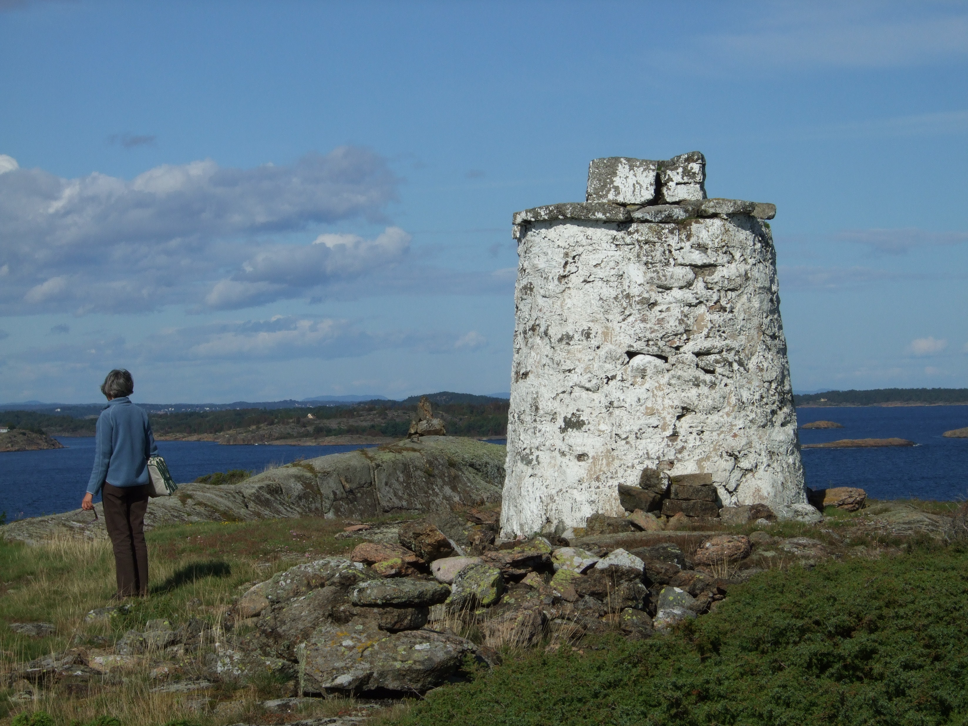 Island Leistein, by Oslofjorden, in Tjøme, Norway.